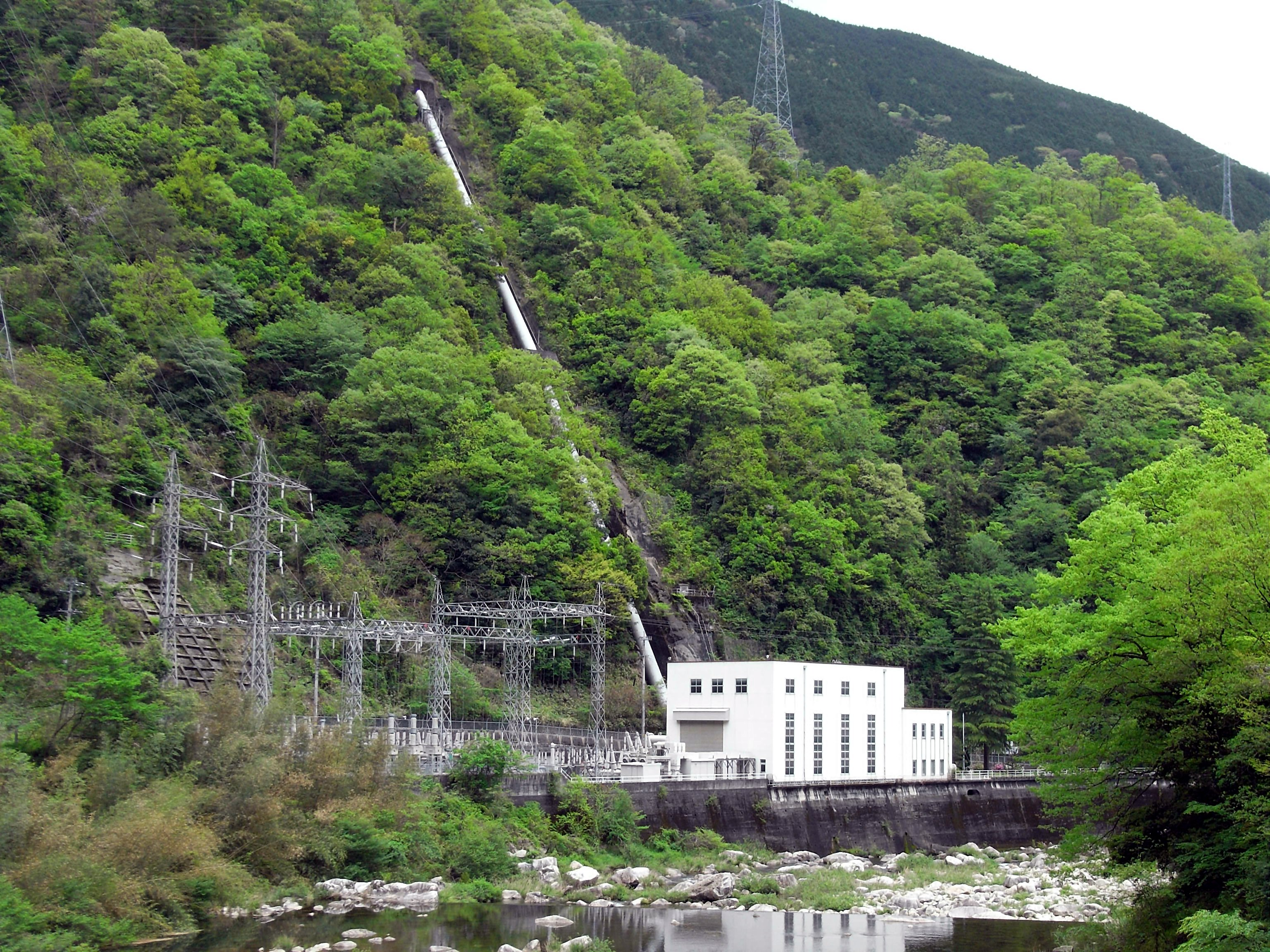 Takiyamagawa power station(Takiyamagawa river./Hiroshima pref./Japan)